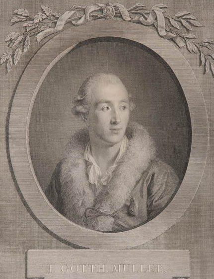 Portrait of Johann Gotthard Müller (1747-1830), German engraver